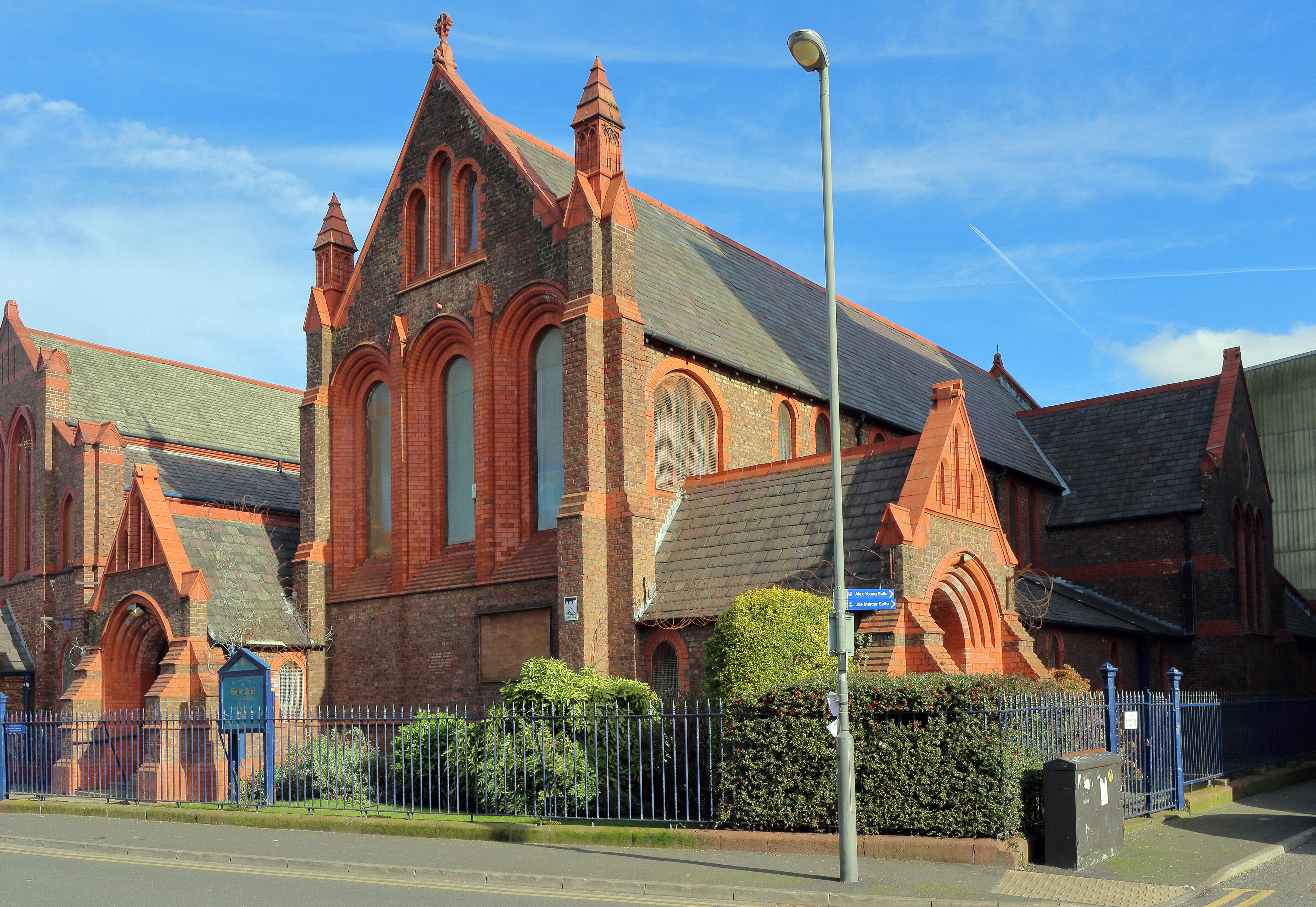 View from the south side